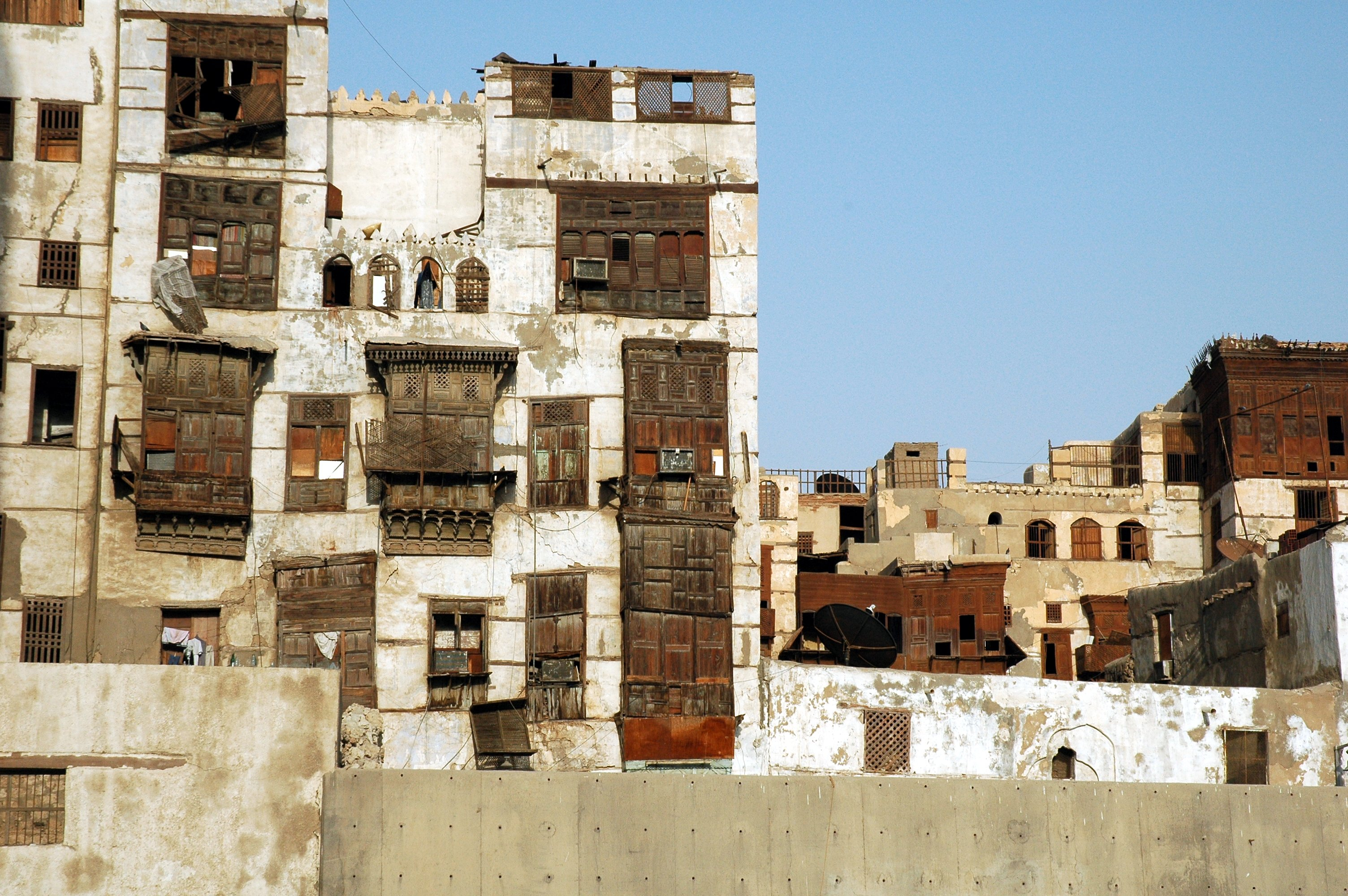 Traditional coral-and-wood houses. Near the entrance to Souq al-Alawi in the al-Balad district, Jeddah.